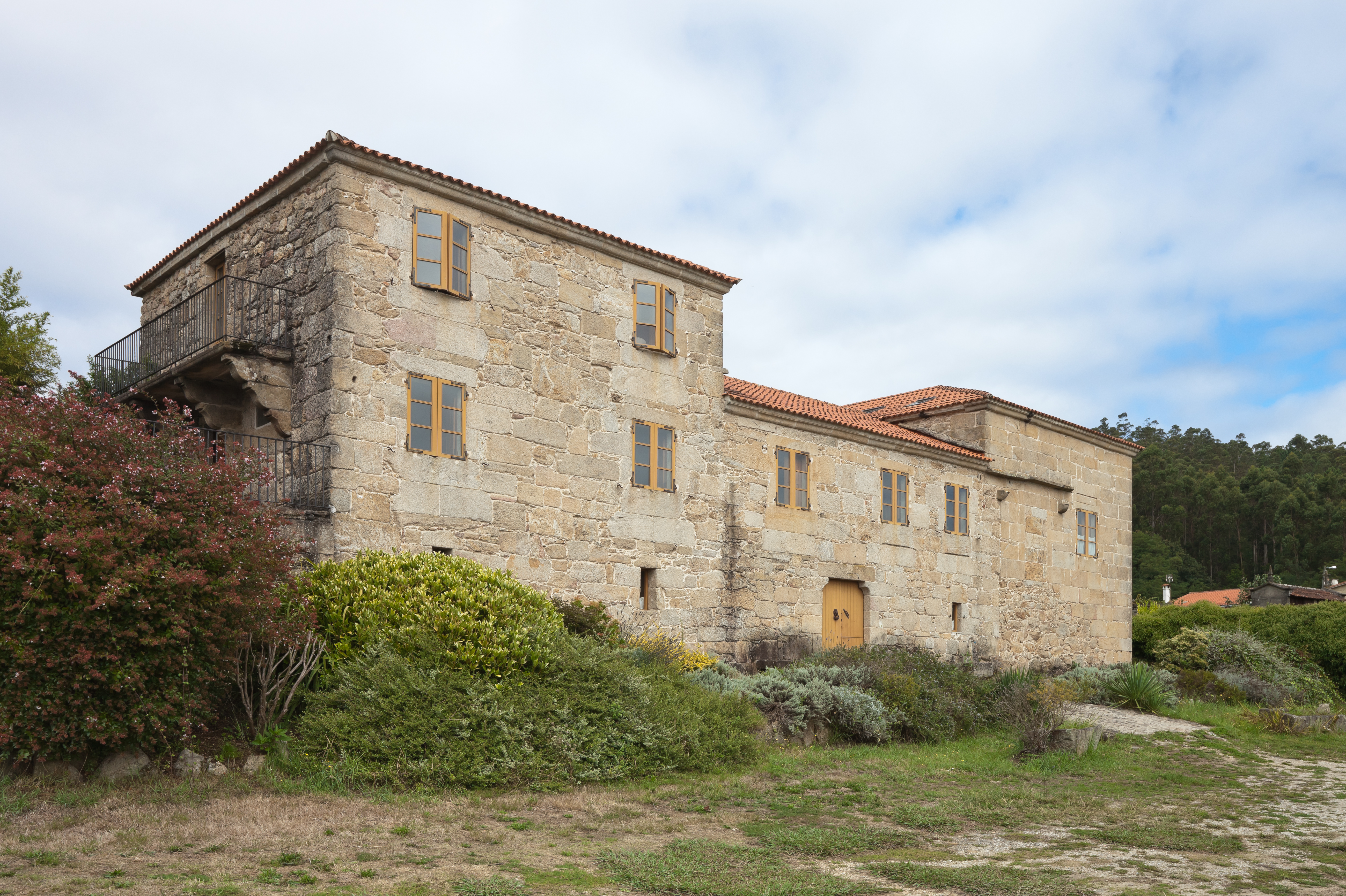 Lestrobe Towers or Hermida Palace, Lestrobe, Dodro, Galicia (Spain)